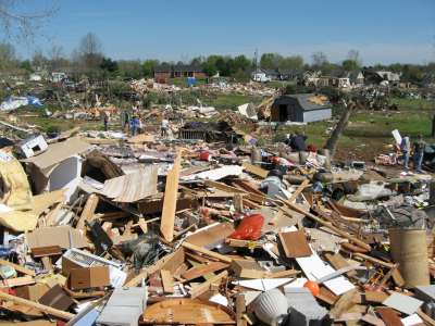 Damage from the April 10, 2009, EF4 Murfreesboro tornado